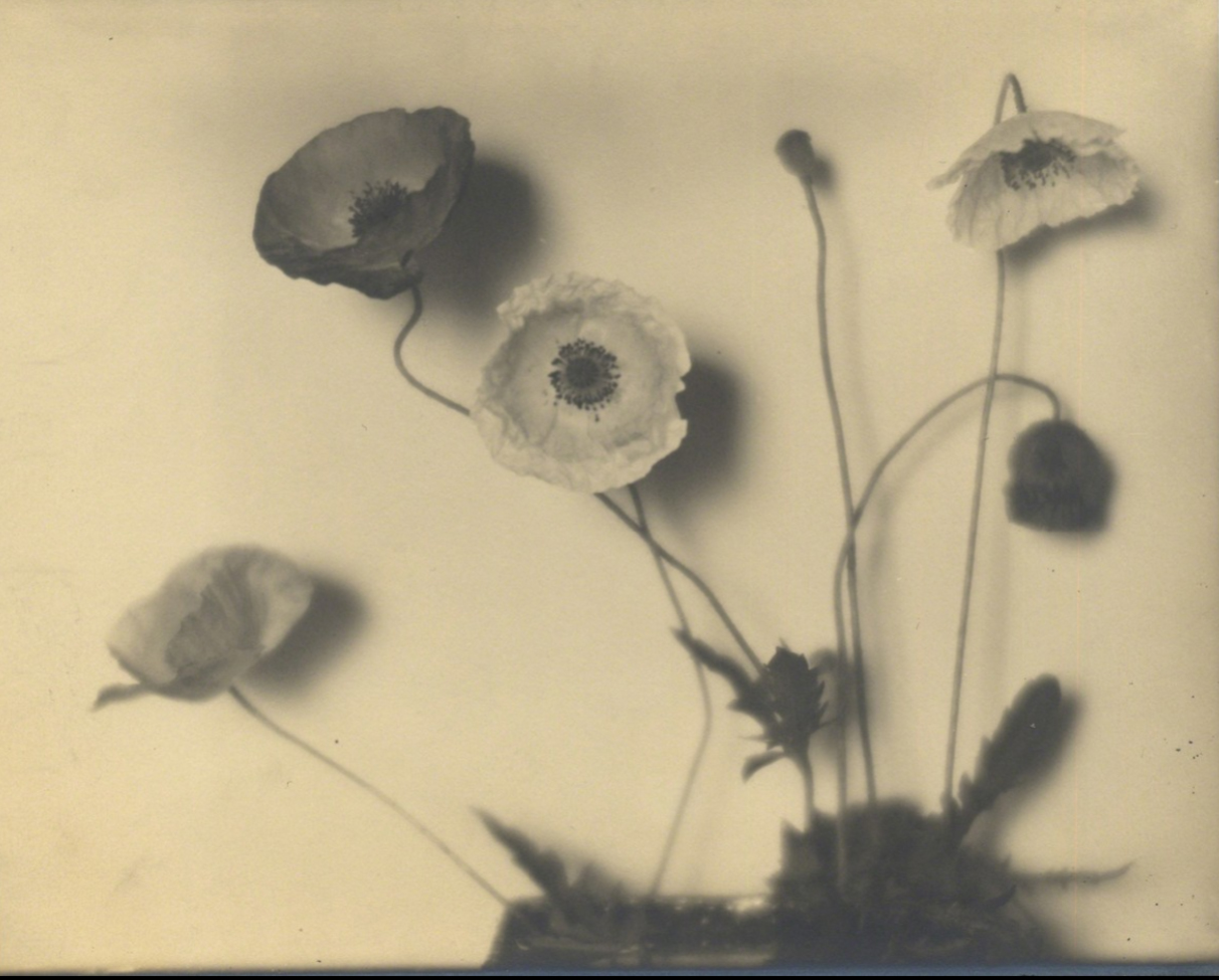 Margaret Watkins, Flower Studies, ca. 1920 Vintage platinum/palladium print 6 1/2 × 7 3/4 in 16.5 × 19.7 cm